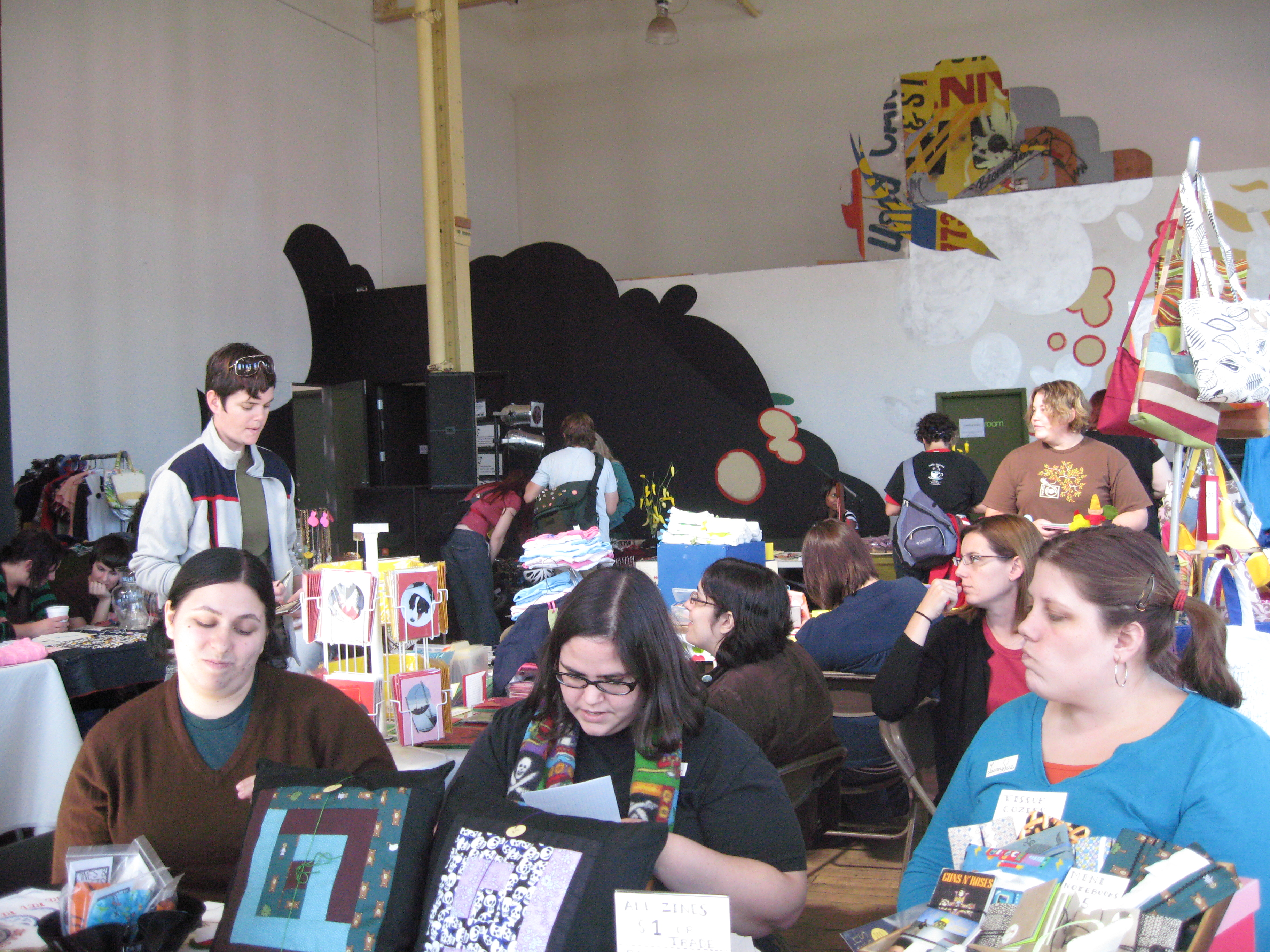 To be used to illustrate Ladyfest articles on wikipedia. Licensed under Creative Commons "by" license